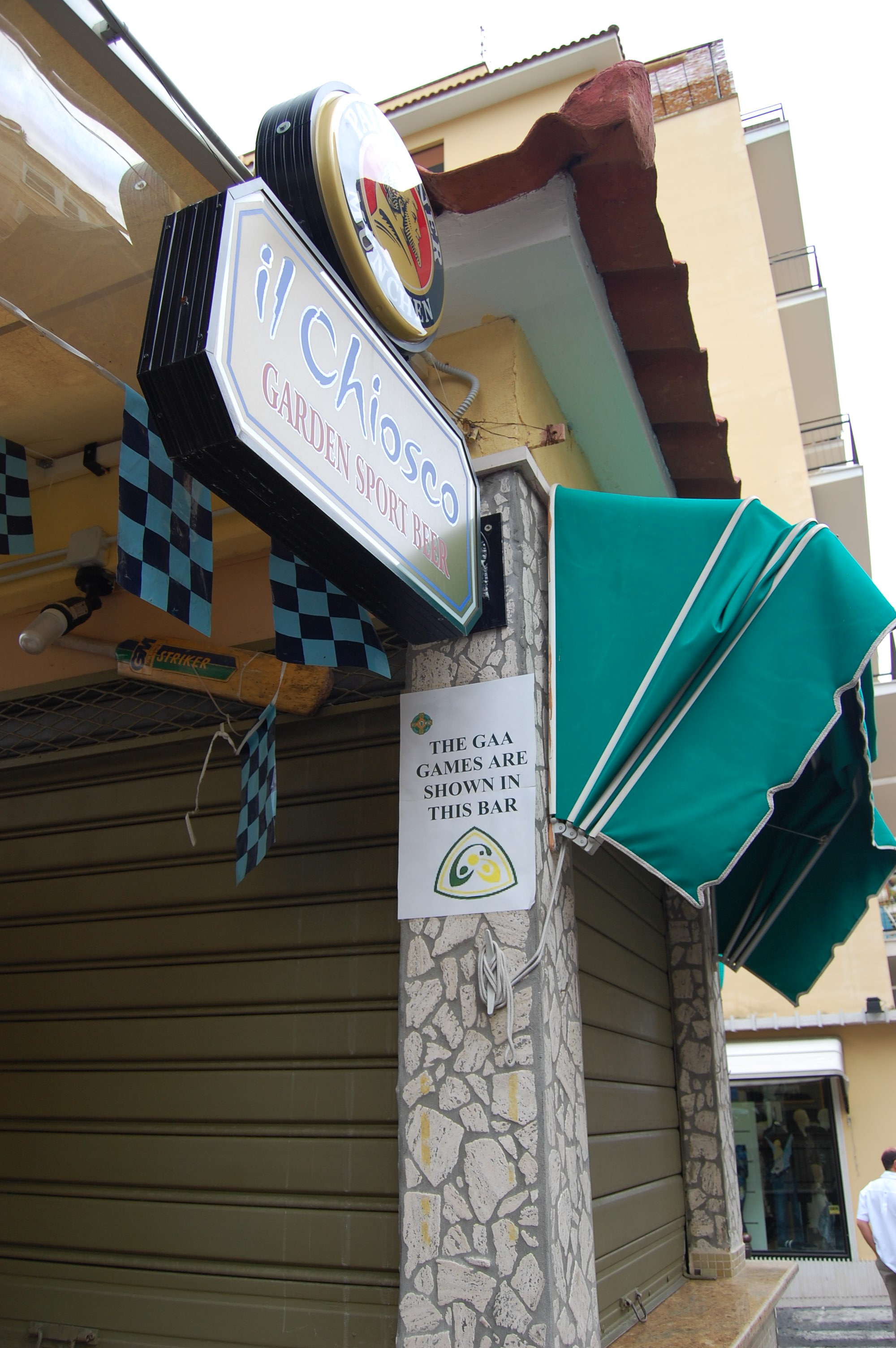 Gaelic games in Sorrento